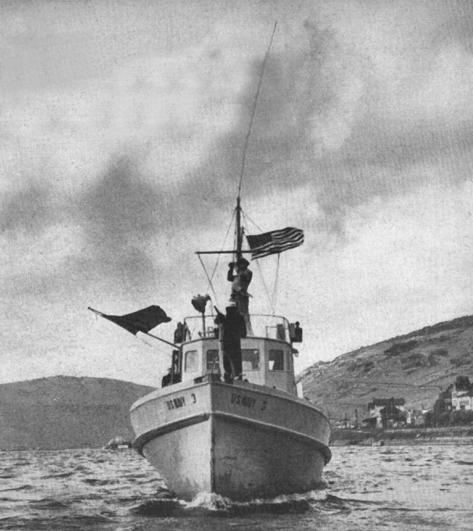 A U.S. Navy boat of the Rhine River Patrol. The boat is a former German torpedo retriever.